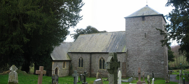 St Maelog's Church, Llandefaelog Fach The church in Llandefaelog Fach, dedicated to St Maelog.